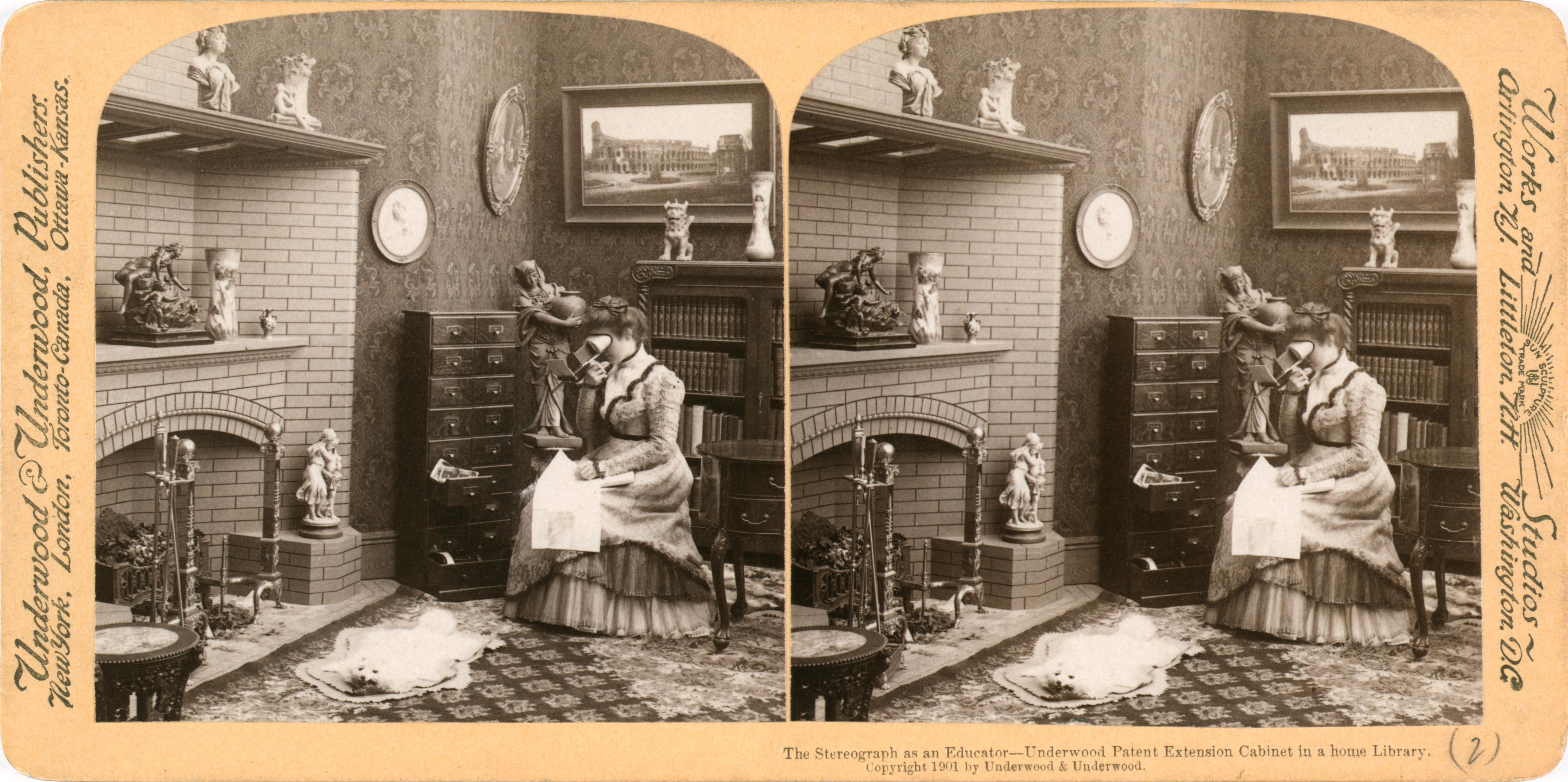 Card caption: "The stereograph as an educator - Underwood patent extension cabinet in a home library." Library of Congress description: "Photograph shows a woman viewing stereographs in her home; she is sitting in front of a fireplace with a cabinet for stereographs on her right."